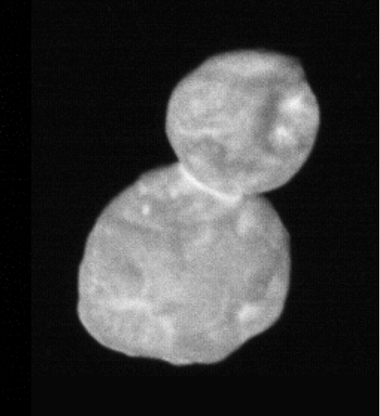 First Images of Ultima Thule Release Date: January 2, 2019 This image taken by the Long-Range Reconnaissance Imager (LORRI) is the most detailed of Ultima Thule returned so far by the New Horizons spacecraft. It was taken at 5:01 Universal Time on January 1, 2019, just 30 minutes before closest approach from a range of 46,000 miles (73,929 kilometers), with an original scale of 459 feet (140 meters) per pixel.